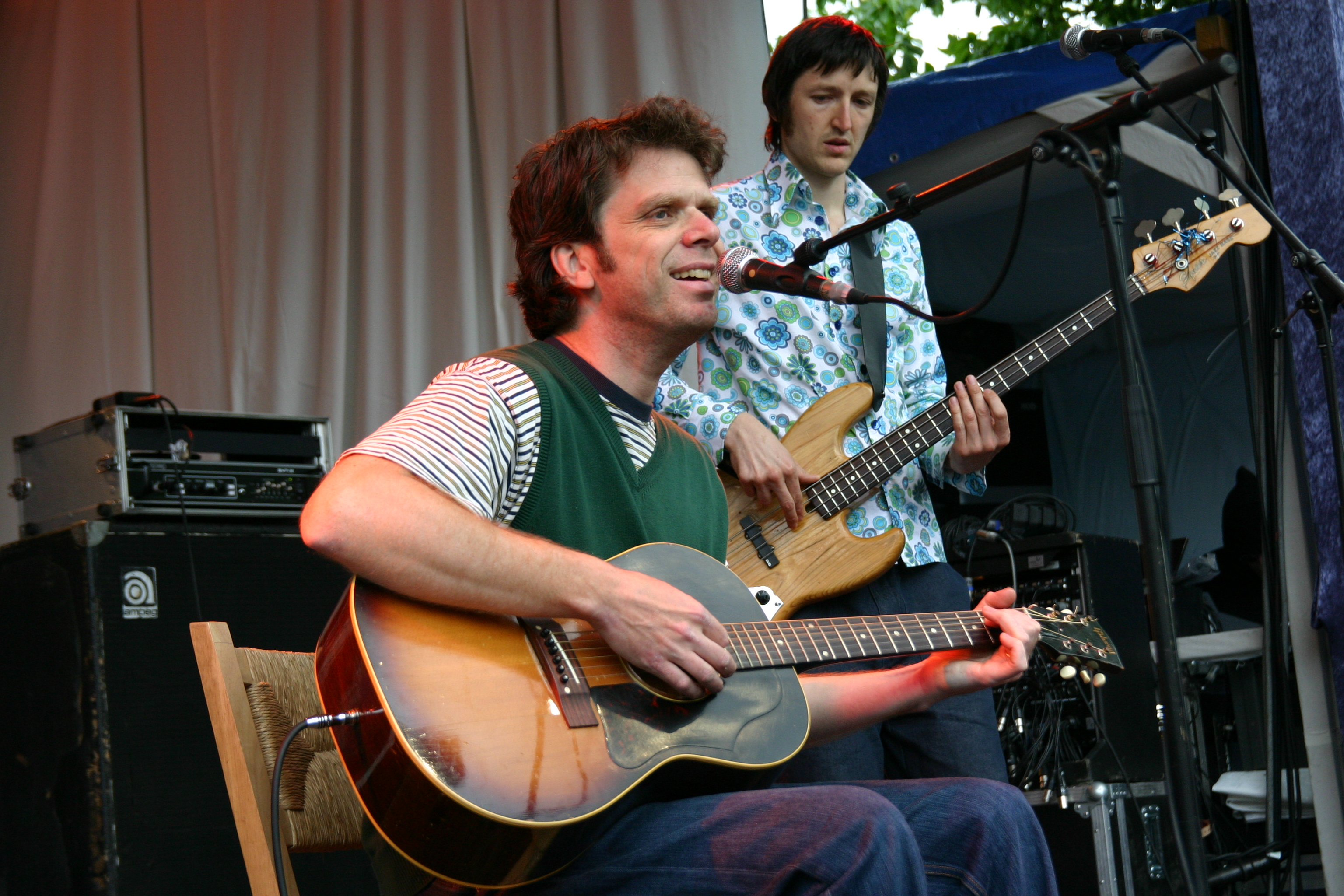 Jeb Loy Nichols, US-american singer-sonbgwriter, formerly of the Fellow Travellers